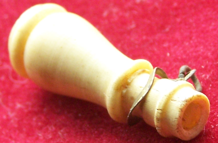 Please see filename